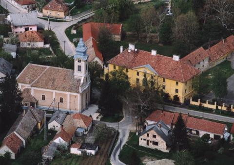 Pápakovácsi, Hungary, aerialphotography. Szent Anna római katolikus templom This is a photo of a monument in Hungary, Identifier: 10233